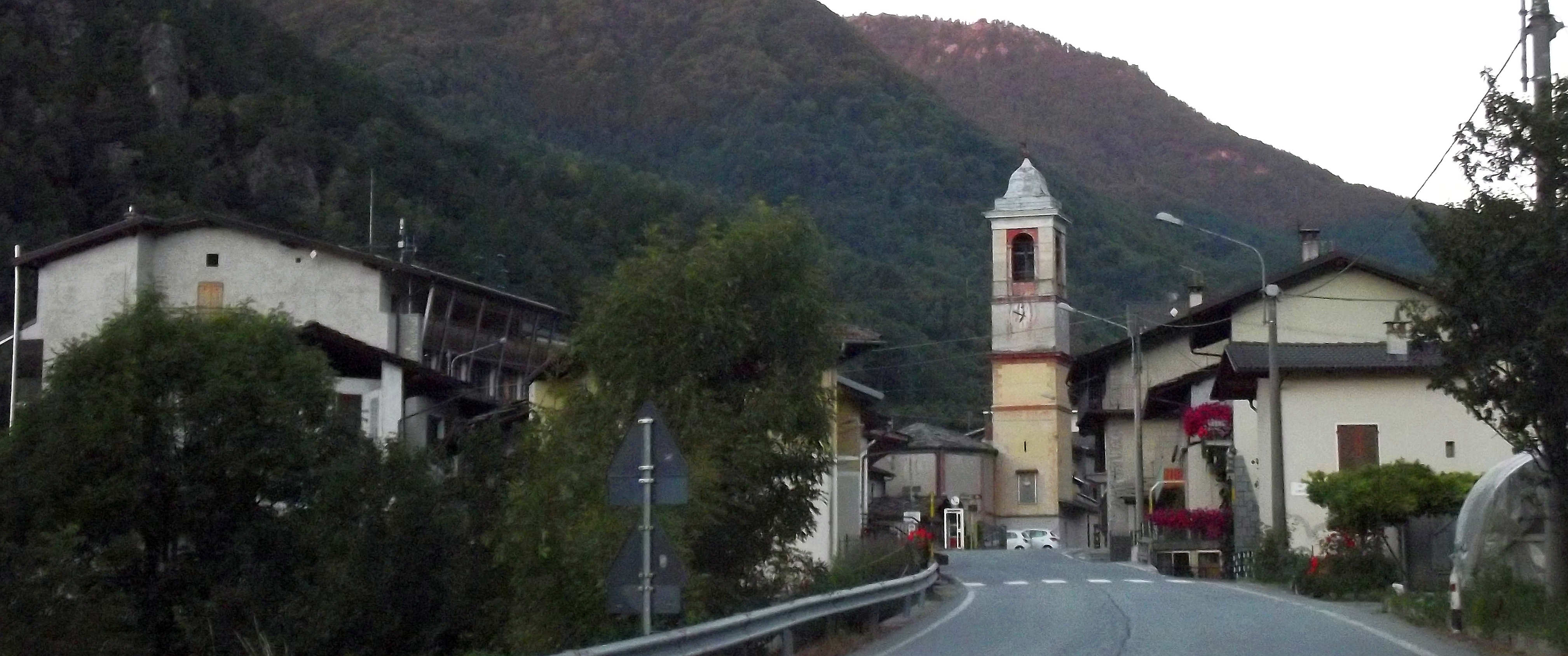 Frassino (CN, Italy) ar dawn